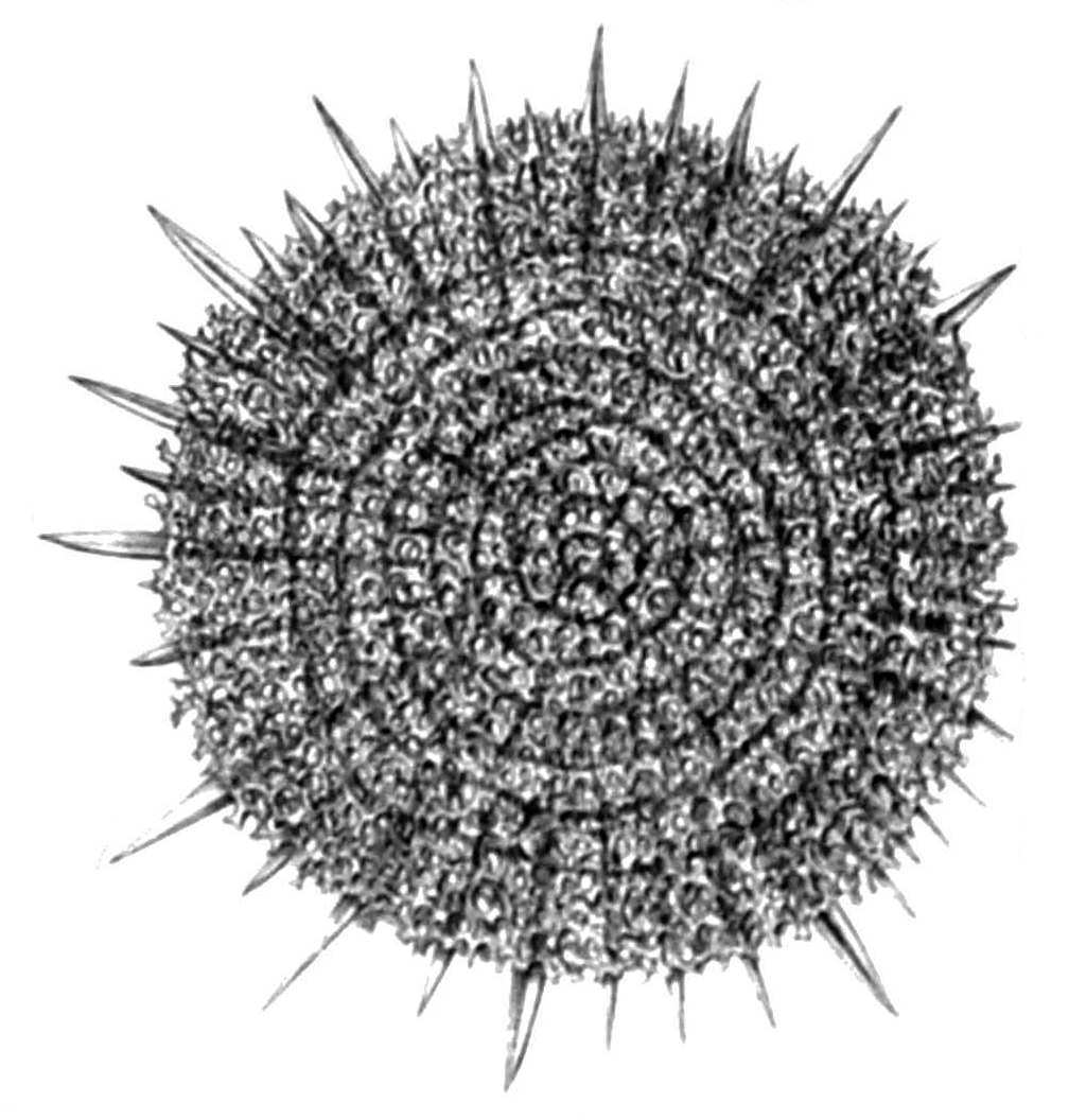 Stylotrochus geddesii Haeckel.